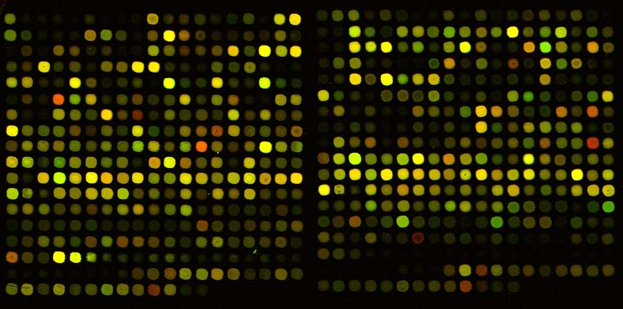 a fragment of cdna microarray